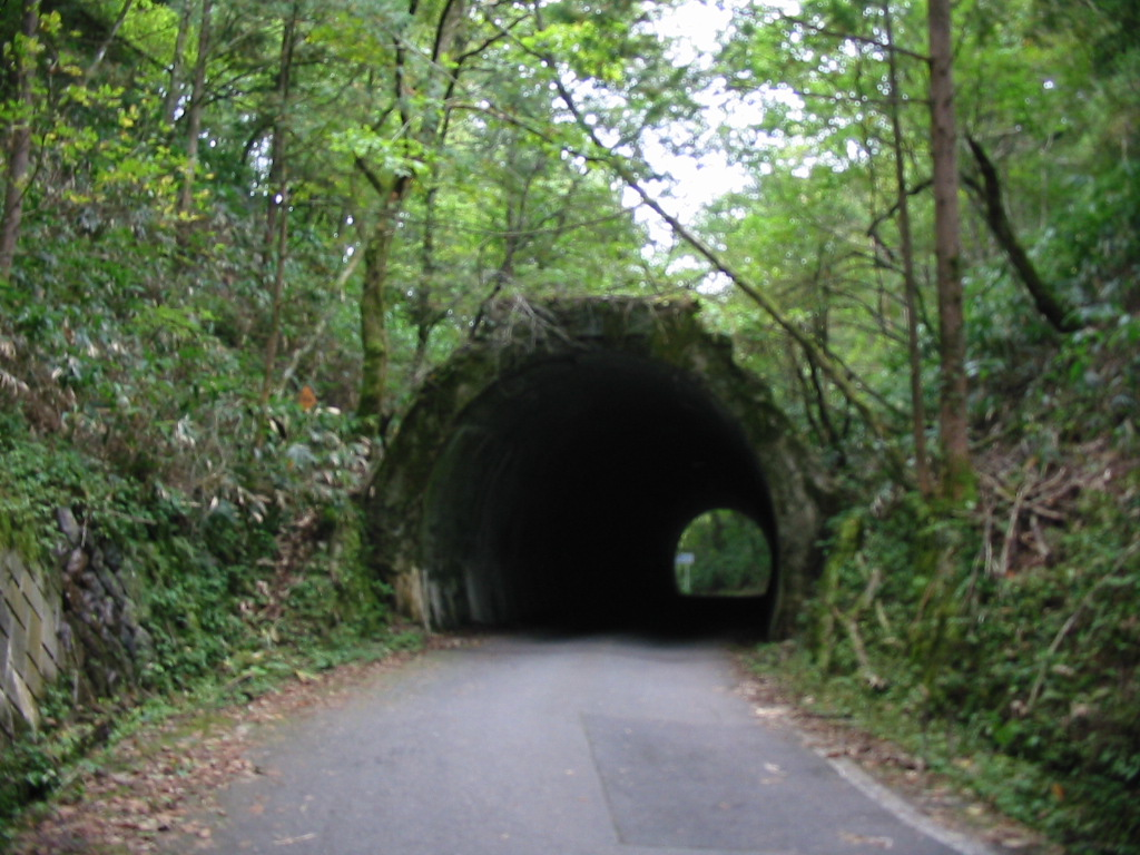 Odaira Pass on the Nagano Prefectural Road Route 8